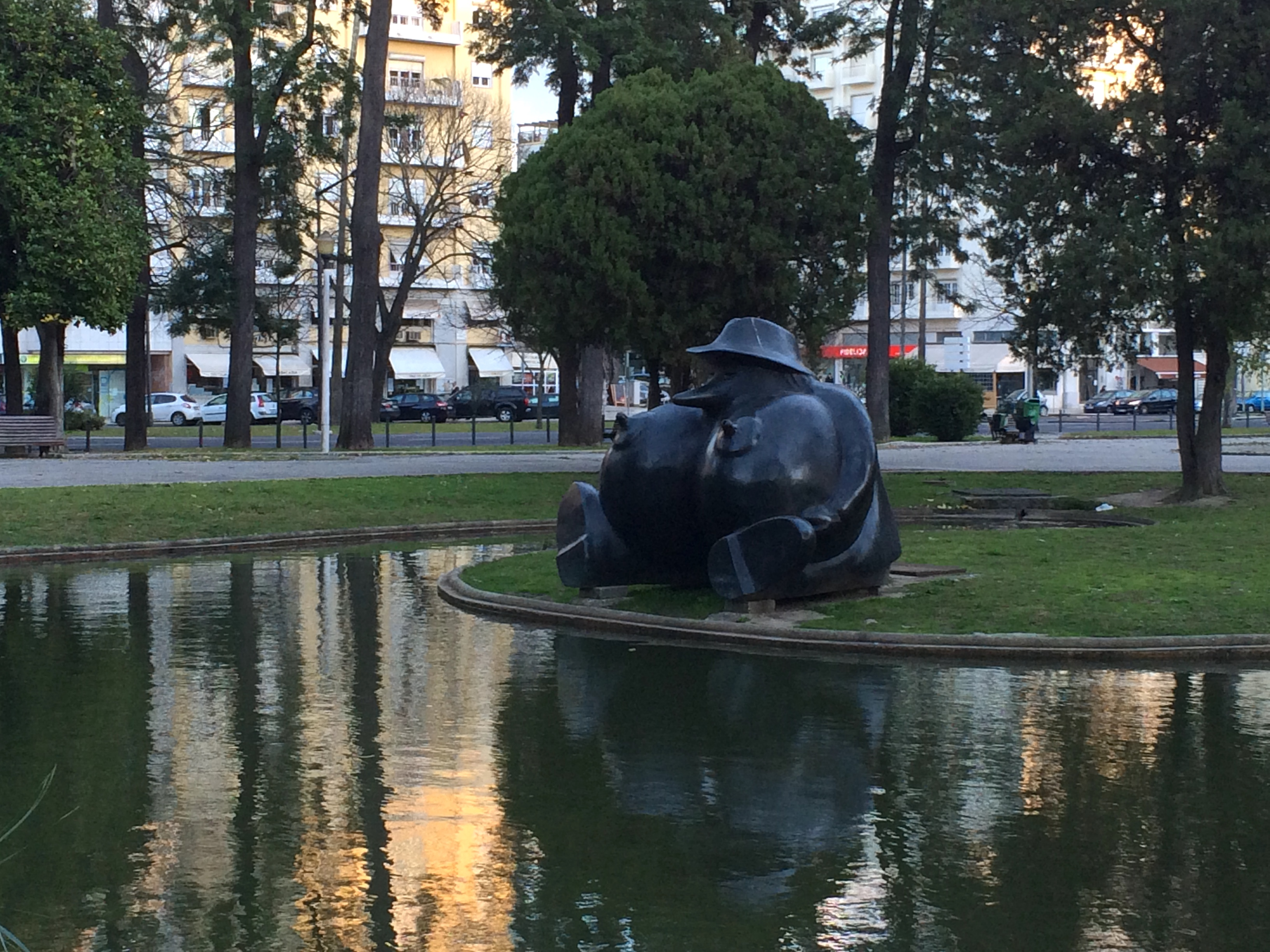 Lisbon